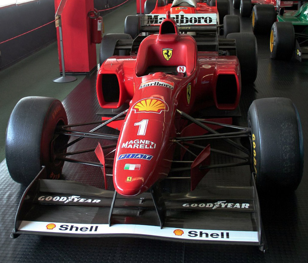 Ferrari F310 developed version (1996, Michael Schumacher)